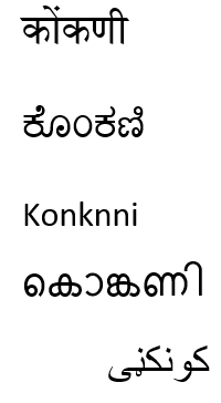 The word "Konkani" in the 5 scripts commonly employed to write it.